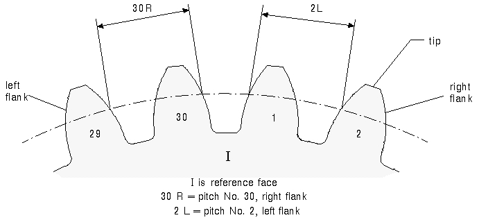 External numbering